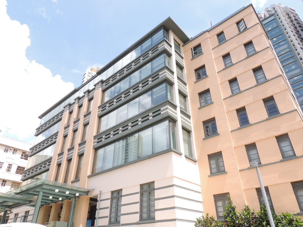 David Trench Rehabilitation Centre